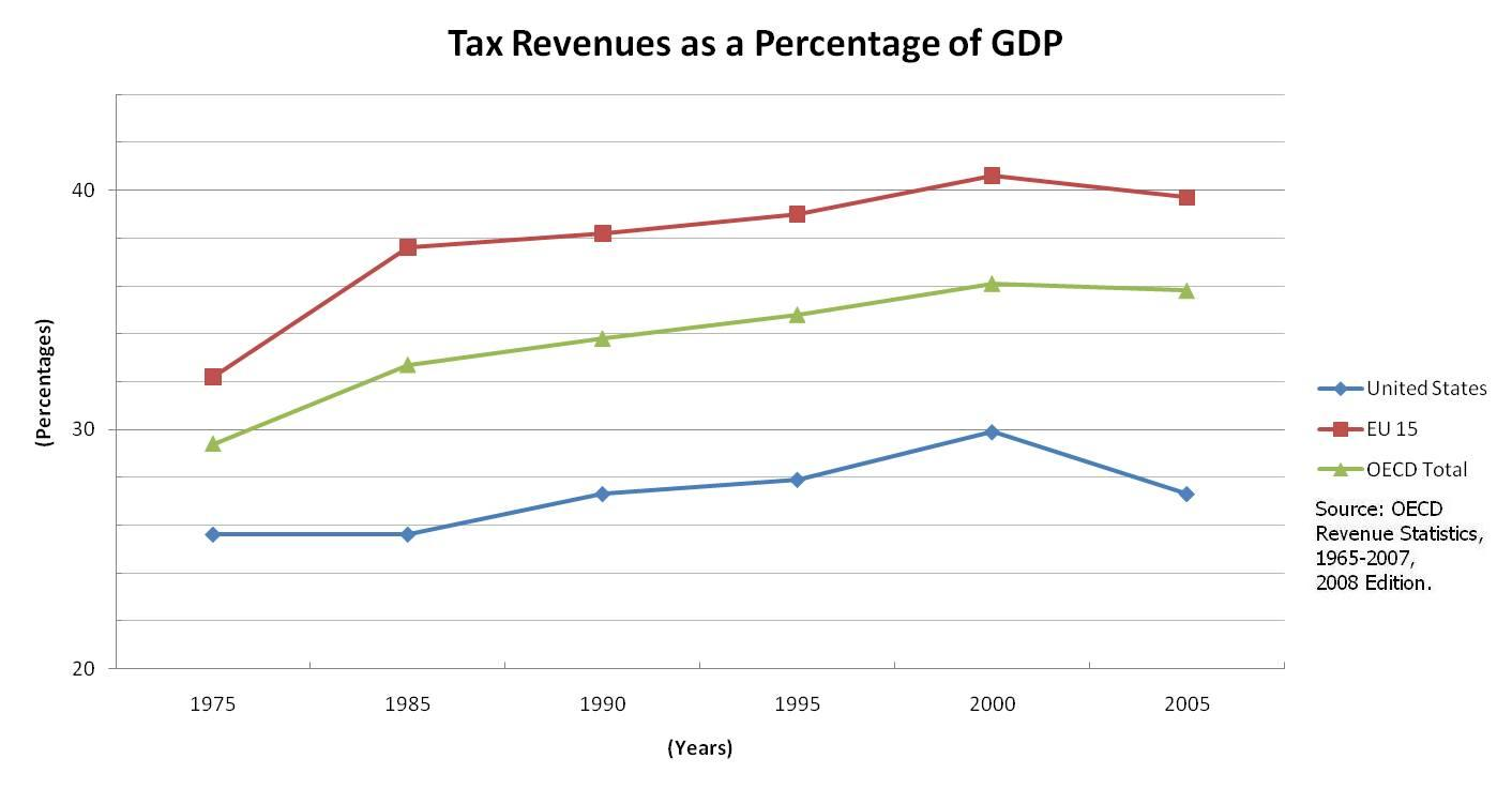 This image portrays total Federal income tax revenue as a percentage of GDP for the United States in comparison to both the unweighted average for the OECD as well as for the EU 15. Note that the EU 15 area countries are: Austria, Belgium, Denmark, Finland, France, Germany, Greece, Ireland, Italy, Luxembourg, Netherlands, Portugal, Spain, Sweden and United Kingdom. Further information is available here at